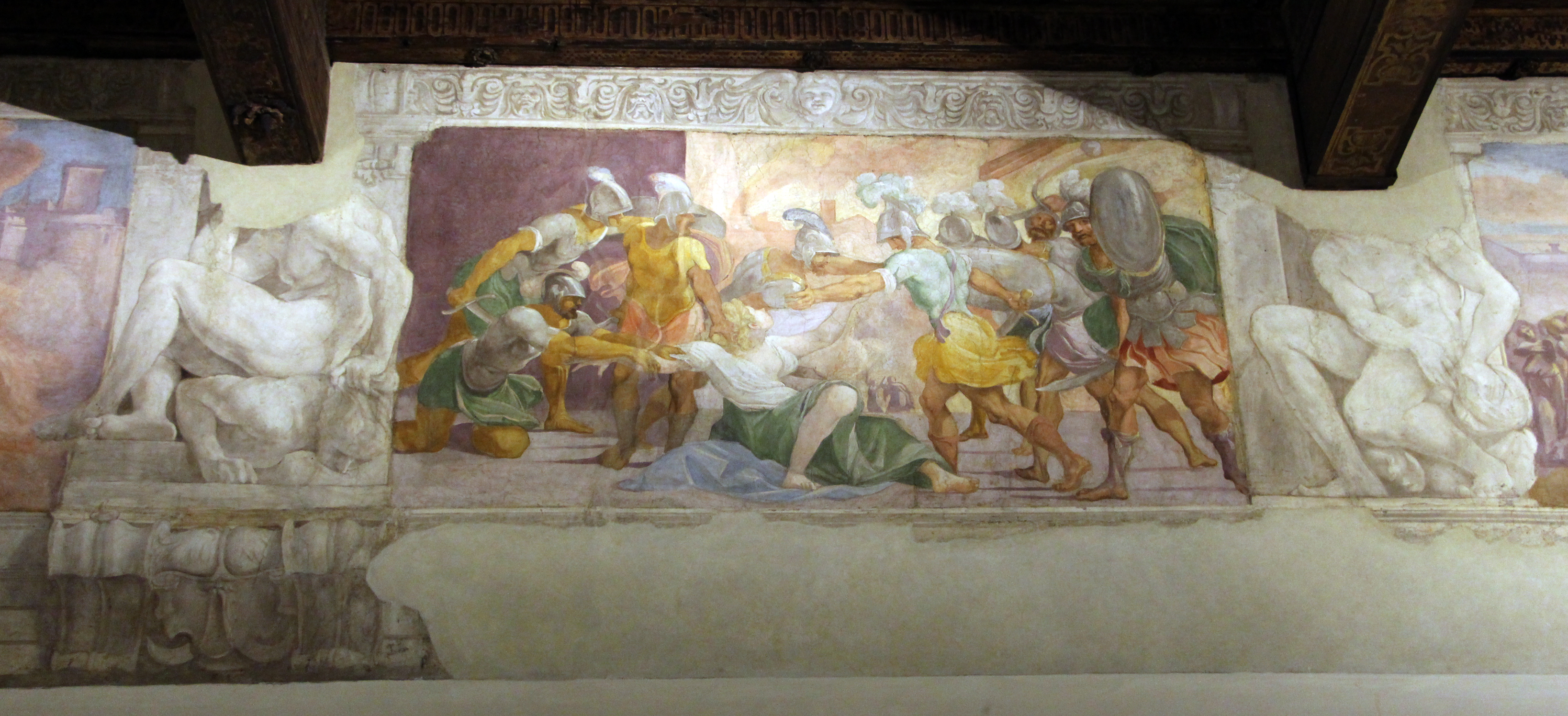 Frieze of Aeneas by the Carracci family